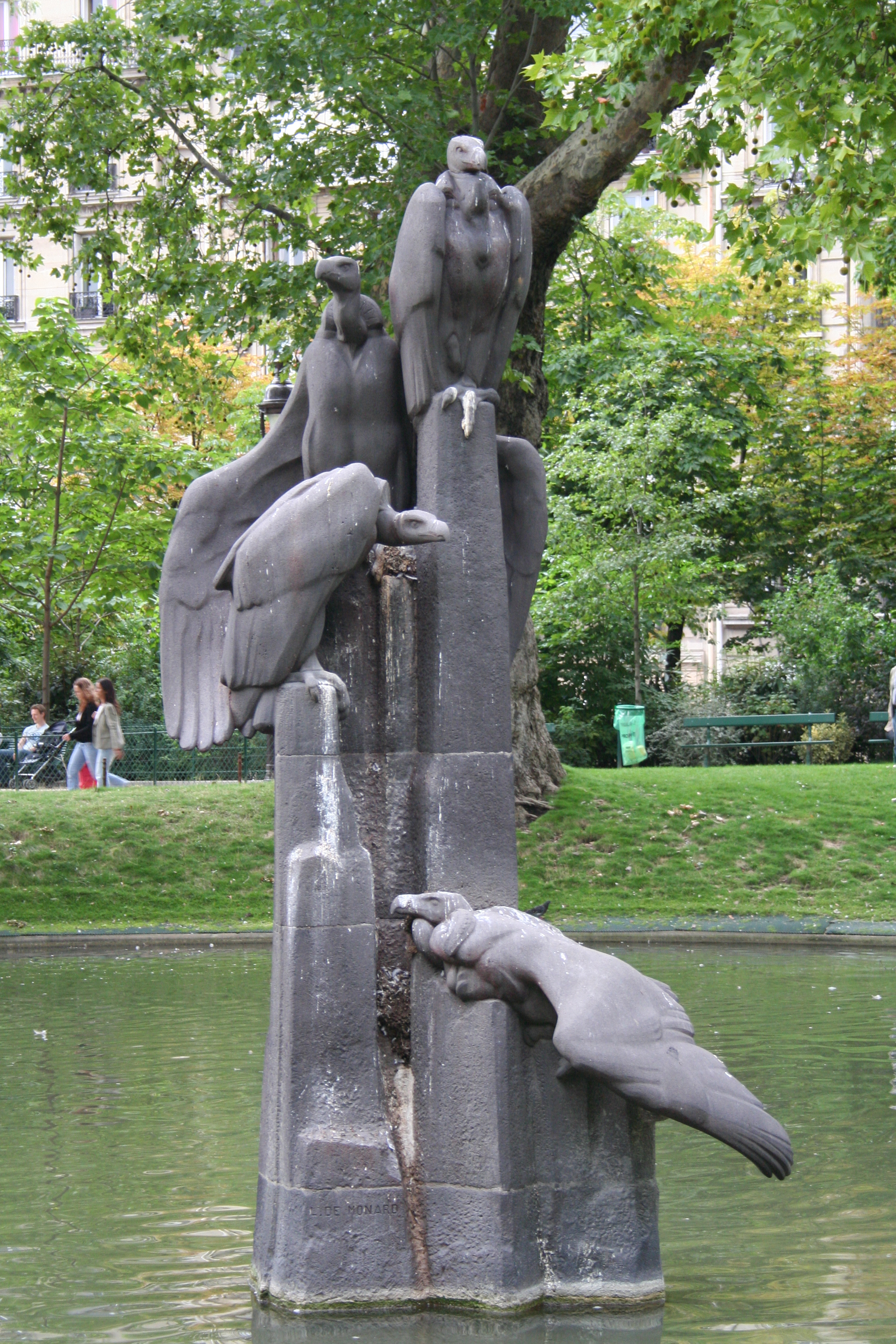 Square des Batignolles (Paris, France).